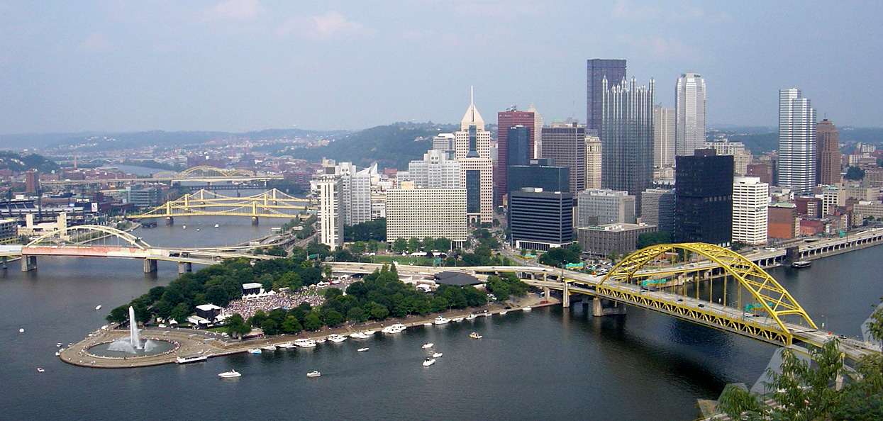 View from Grand View Scenic Byway Park — of Pittsburgh, Pennsylvania skyline, from Mount Washington. At the "tip" is Point State Park, the bridges include Fort Duquesne Bridge on the left of Point State Park and the Fort Pitt Bridge on the right with the Three Sisters are on the left in the distance. The iconic castle-like, PPG Place skycraper is notable at the right. Credits Photo taken by Bobak Ha'Eri. August 29, 2004. Please observe license and properly cite in use outside Wikipedia. If you have any questions about the licensing, please feel free to use the contact information at my user page.